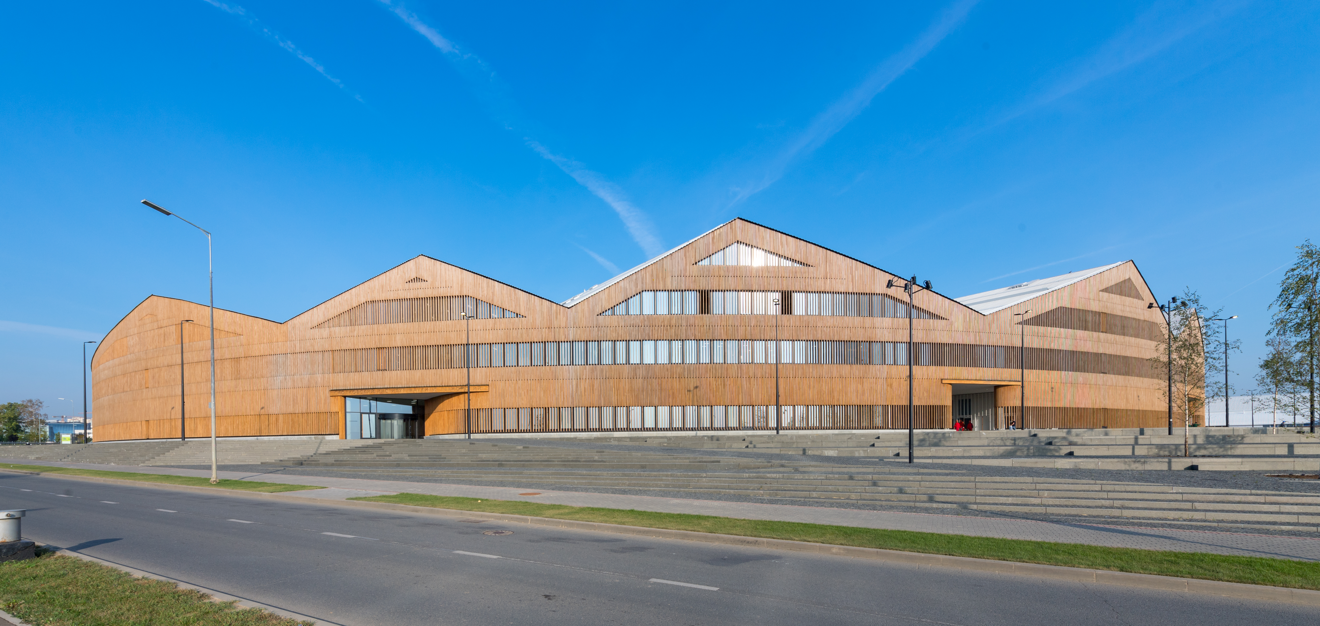 Skolkovo Institute of Science and Technology - the main building.